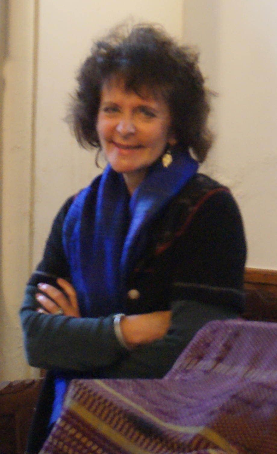 Ruth Padel, during her recent visit to Crete.